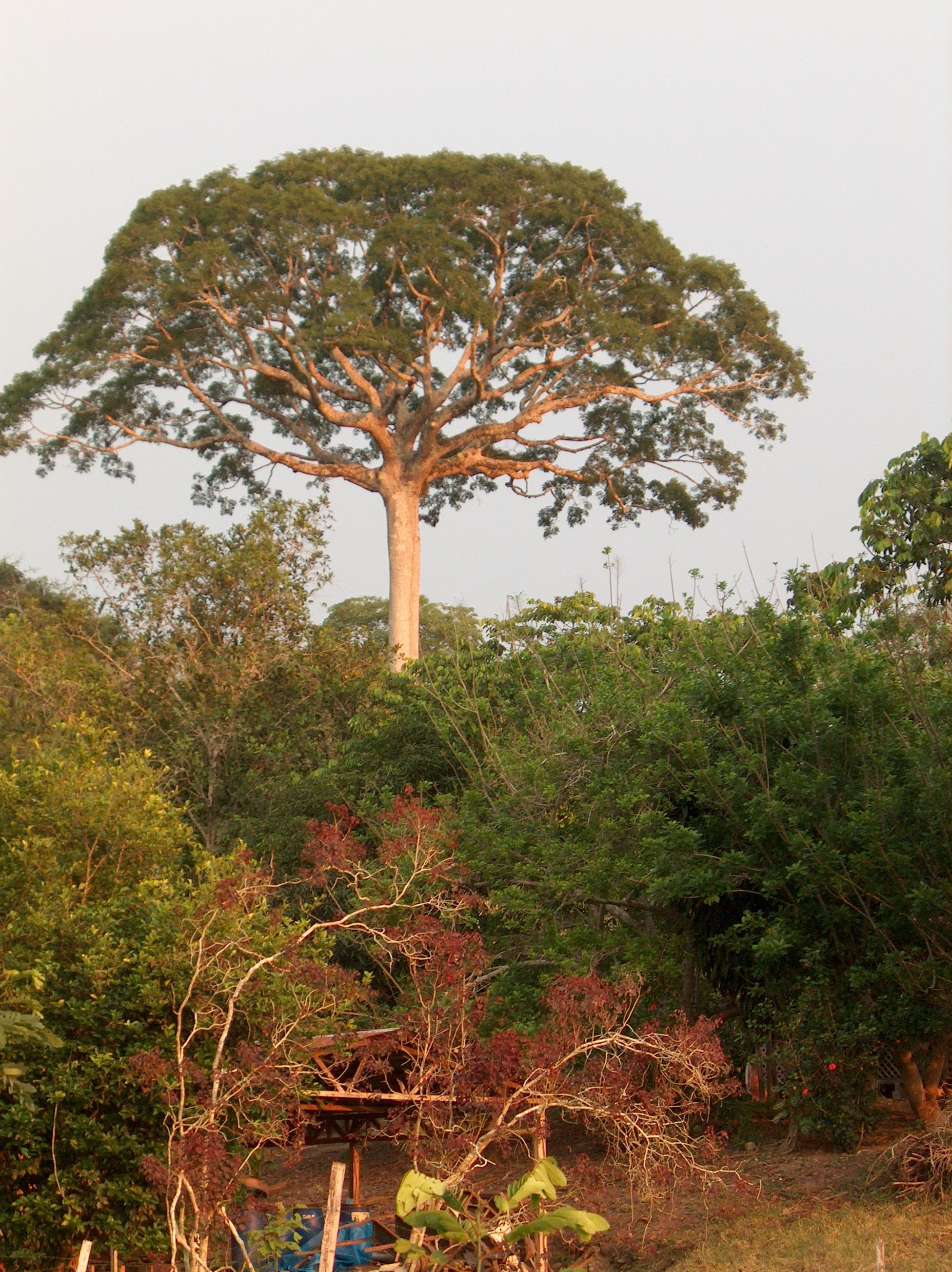 Pictures of Panguana